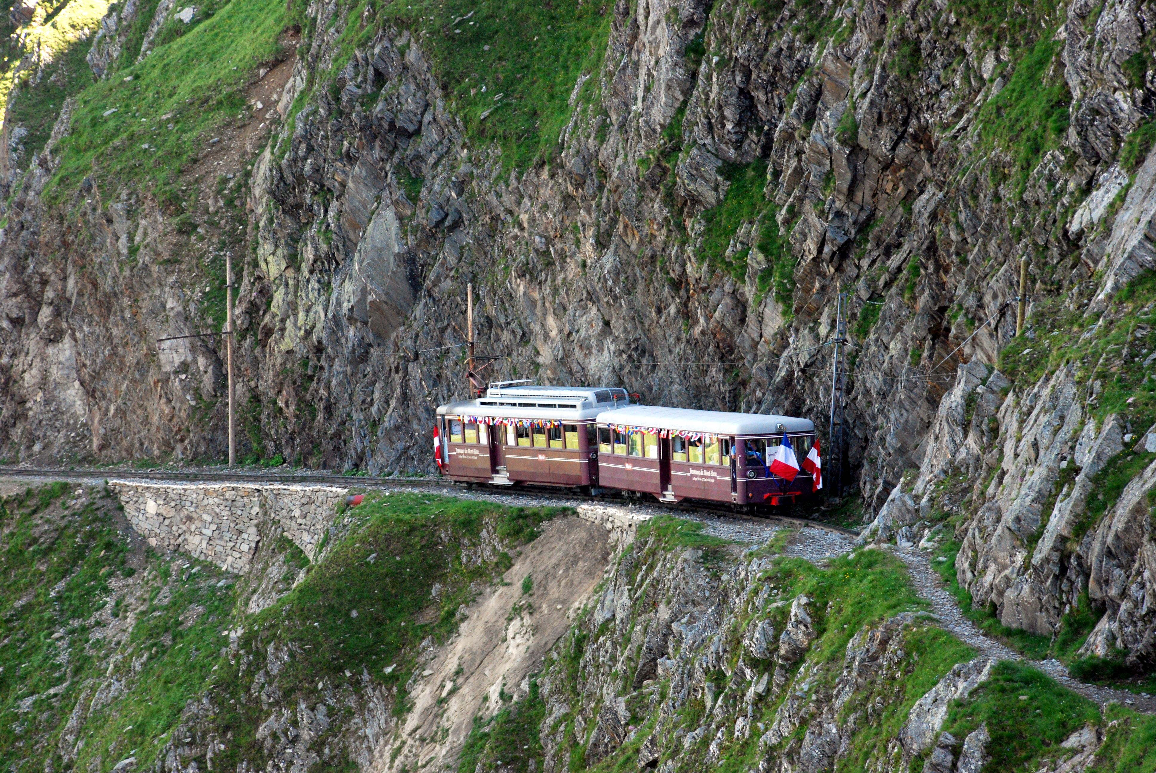 TMB in Les Rognes area.